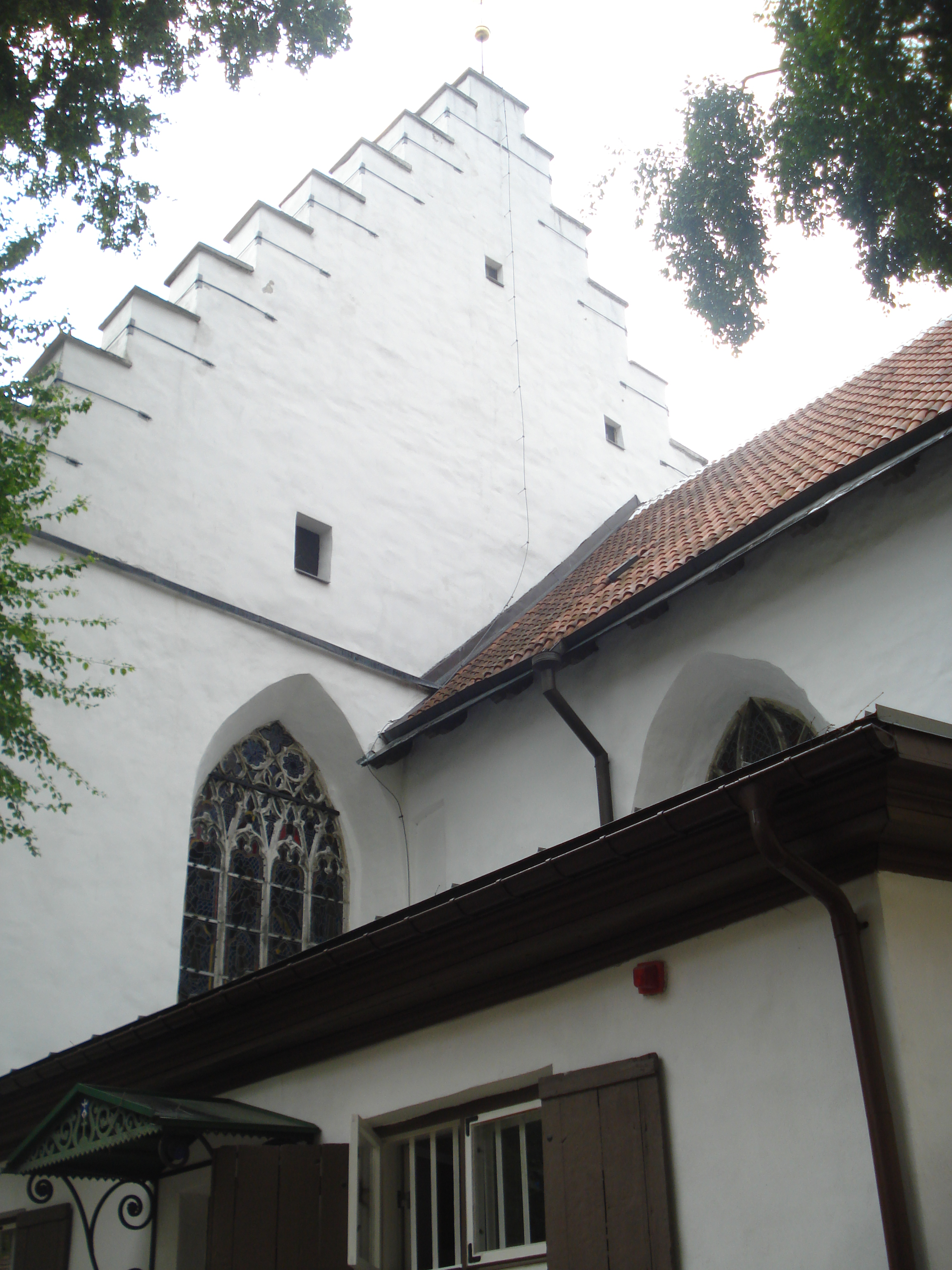 South facade stepped gable of the Church of Holy Spirit in Tallinn